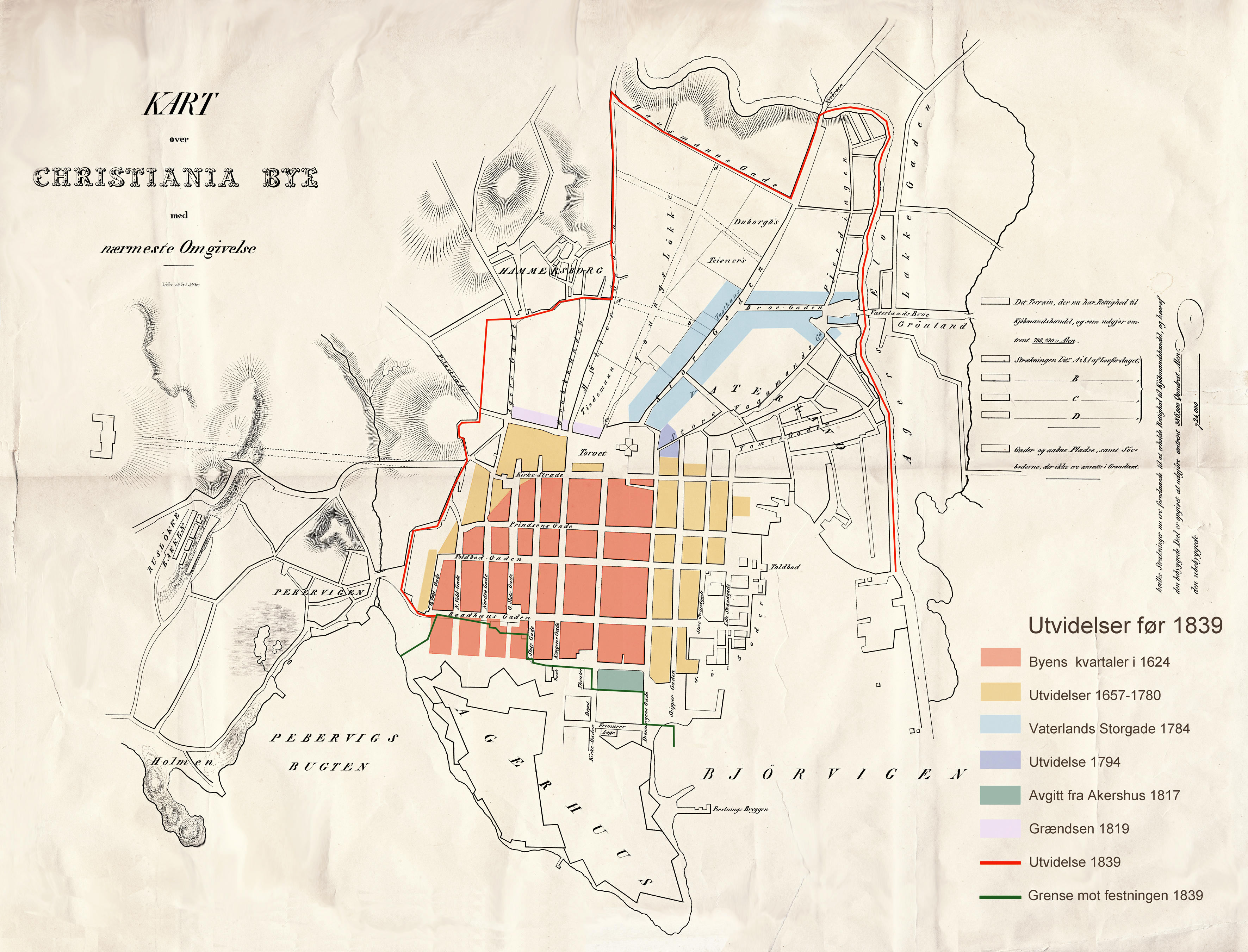 Map of Christiania (Oslo) showing extensions of its area from 1624 until 1839, drawn on an undated map printed in 1837. Published in Lars Roede: Historisk atlas over Oslo, 2016, page 135.